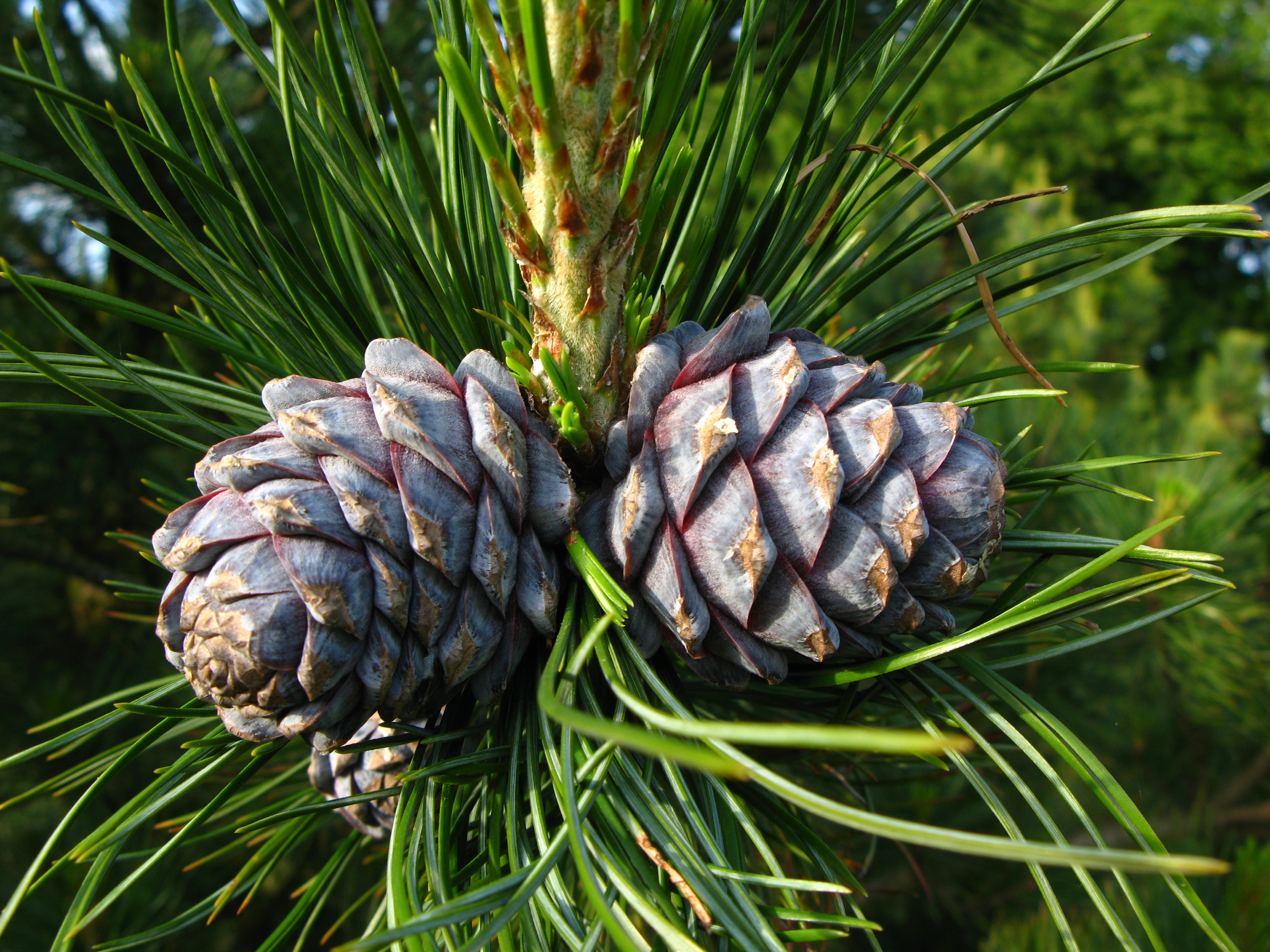 Pinus sibirica cones in PAN Botanical Garden in Warsaw